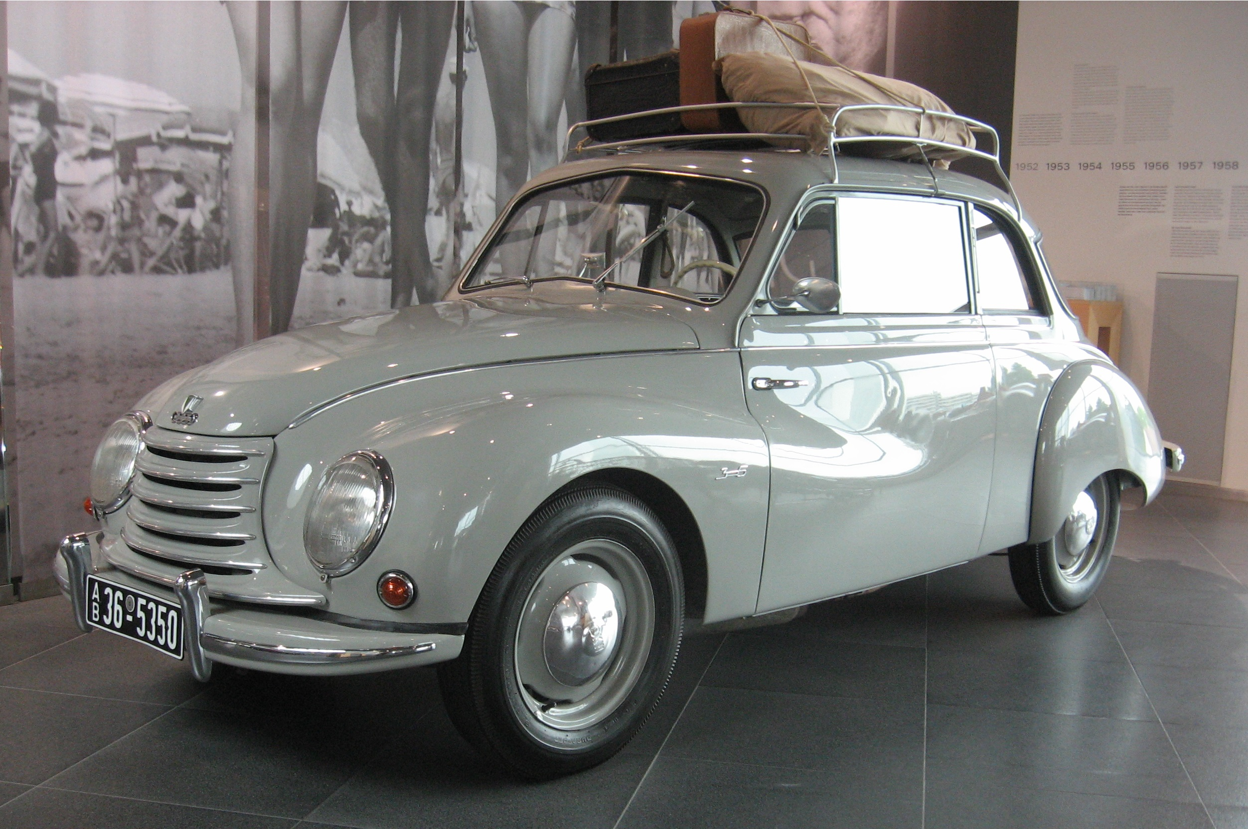 Subject: DKW F91 Author: Luc106 Date:June 17th, 2011 Place/Country: Audi Museum, Ingolstadt (Deutschland) Licensing